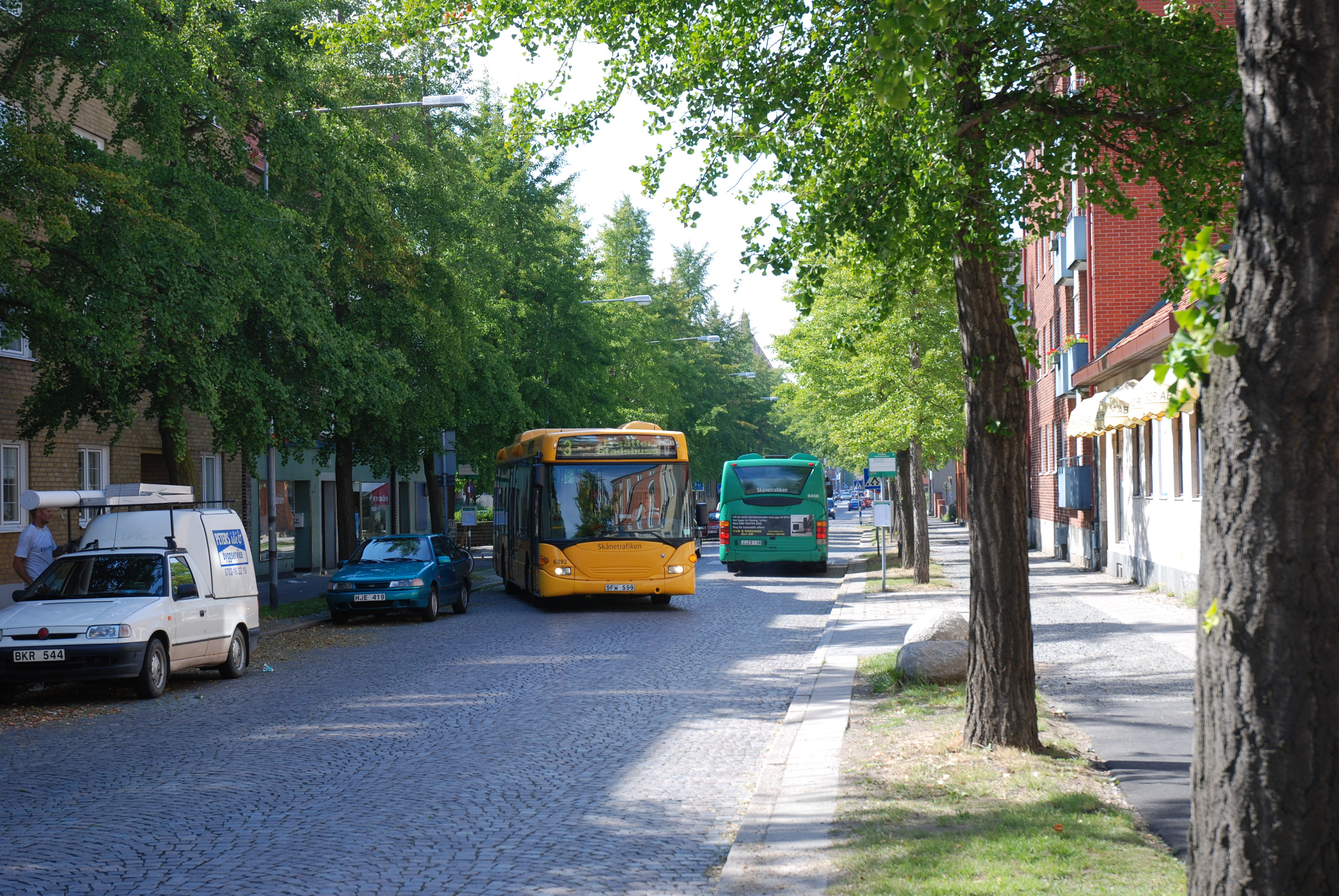 Nygatan alley of Ginkgo trees, Trelleborg, Sweden